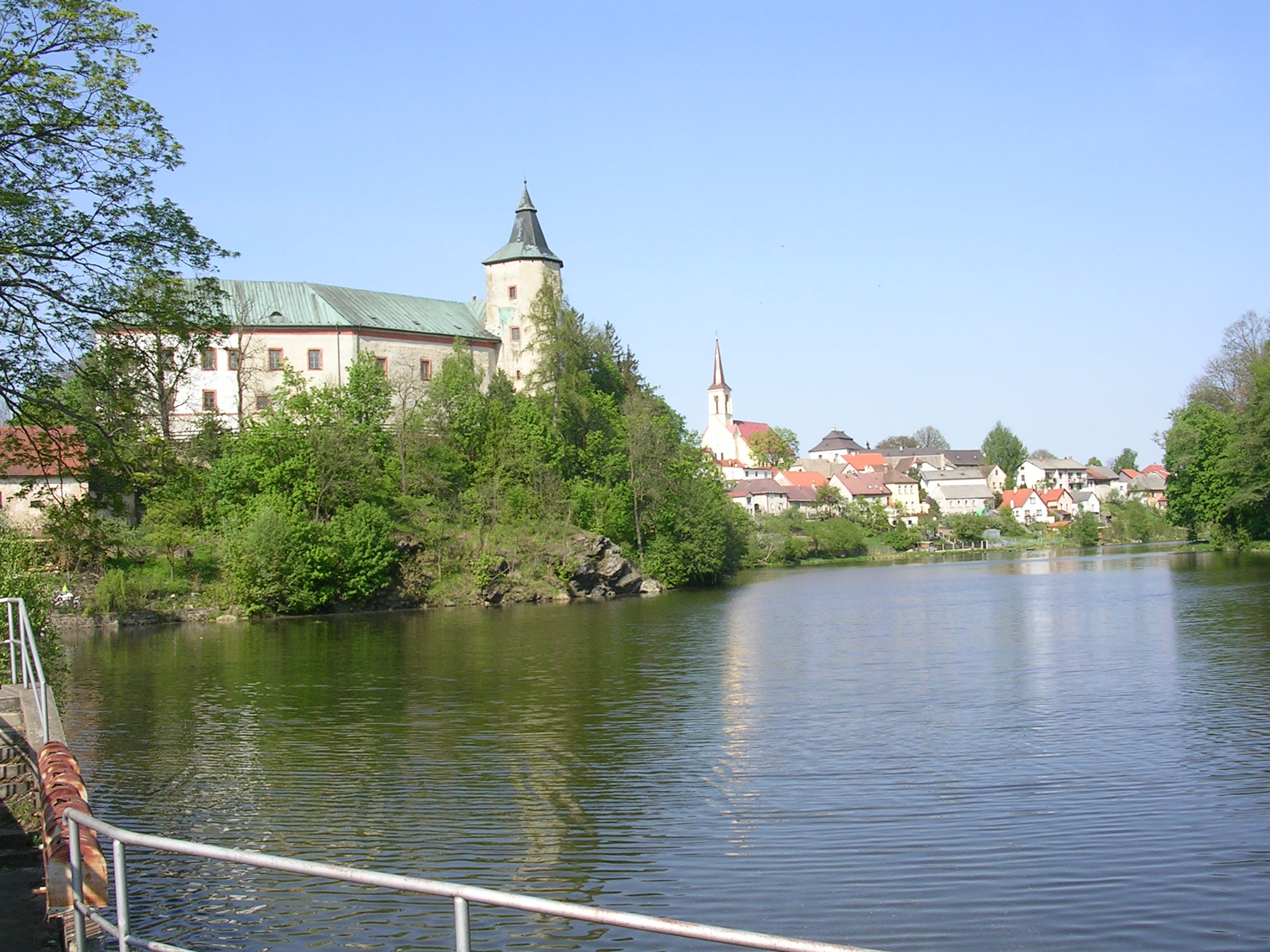 Žirovnice, Vysočina Region, the Czech Republic.